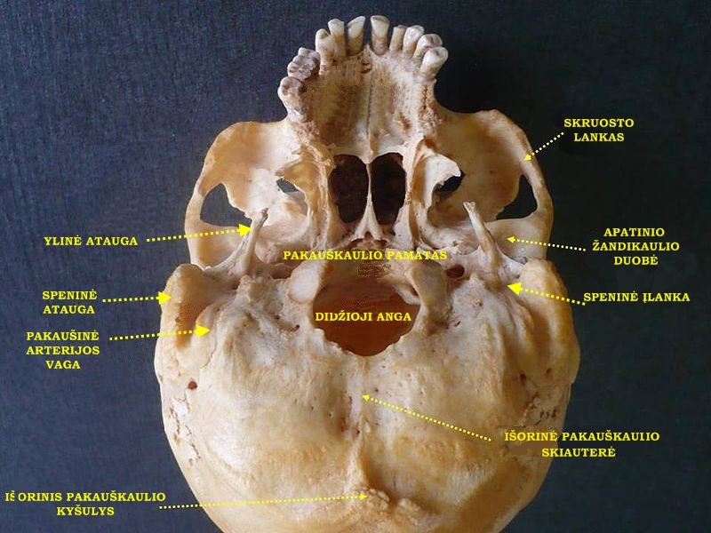 Anatomical dissections